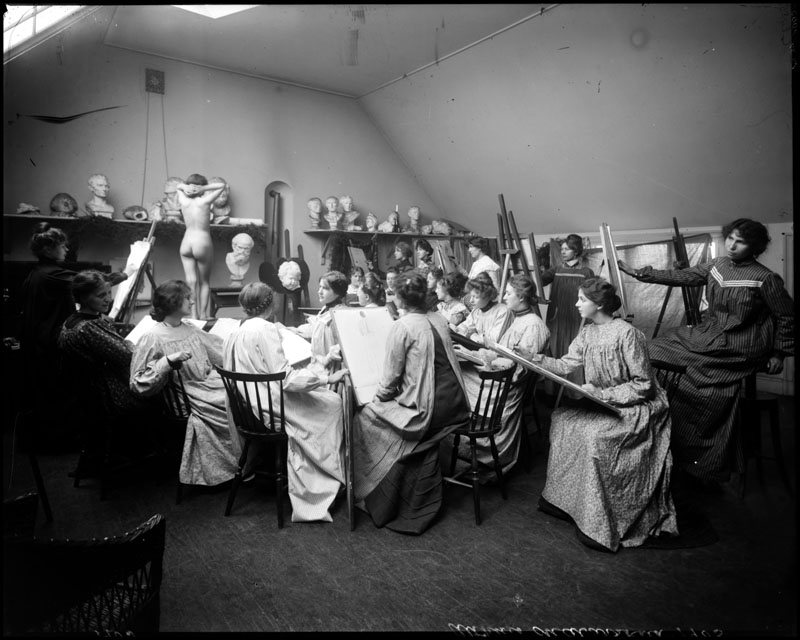 C. Althins Painting School. Stockholm, Sweden. Third from left is artist Olga Raphael-Hallencreutz(1887-1967), the fourth from right is the artist Elin Wallin (1884-1969).